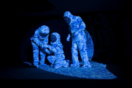 "Le vent reconnaîtra la pointure de mes pieds" de Florent Trochel, durant le festival Sidération 2015